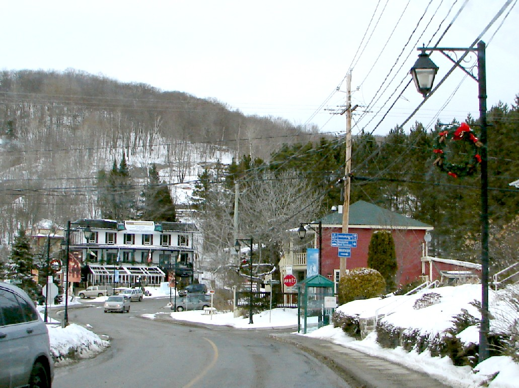 Centre of the original Mont-Tremblant village